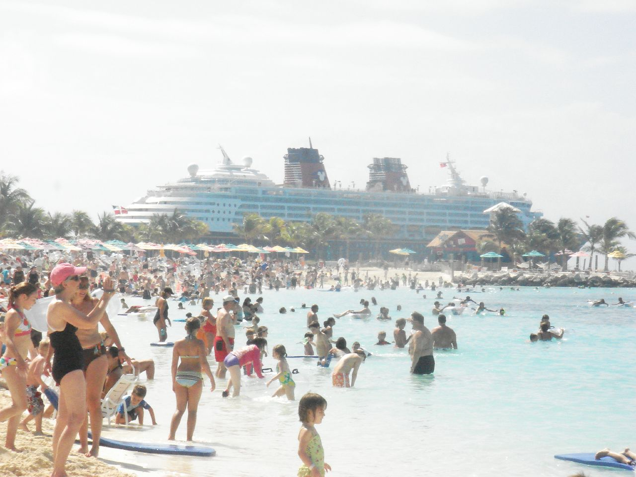 Castaway Cay beach, with the Disney Magic in the background